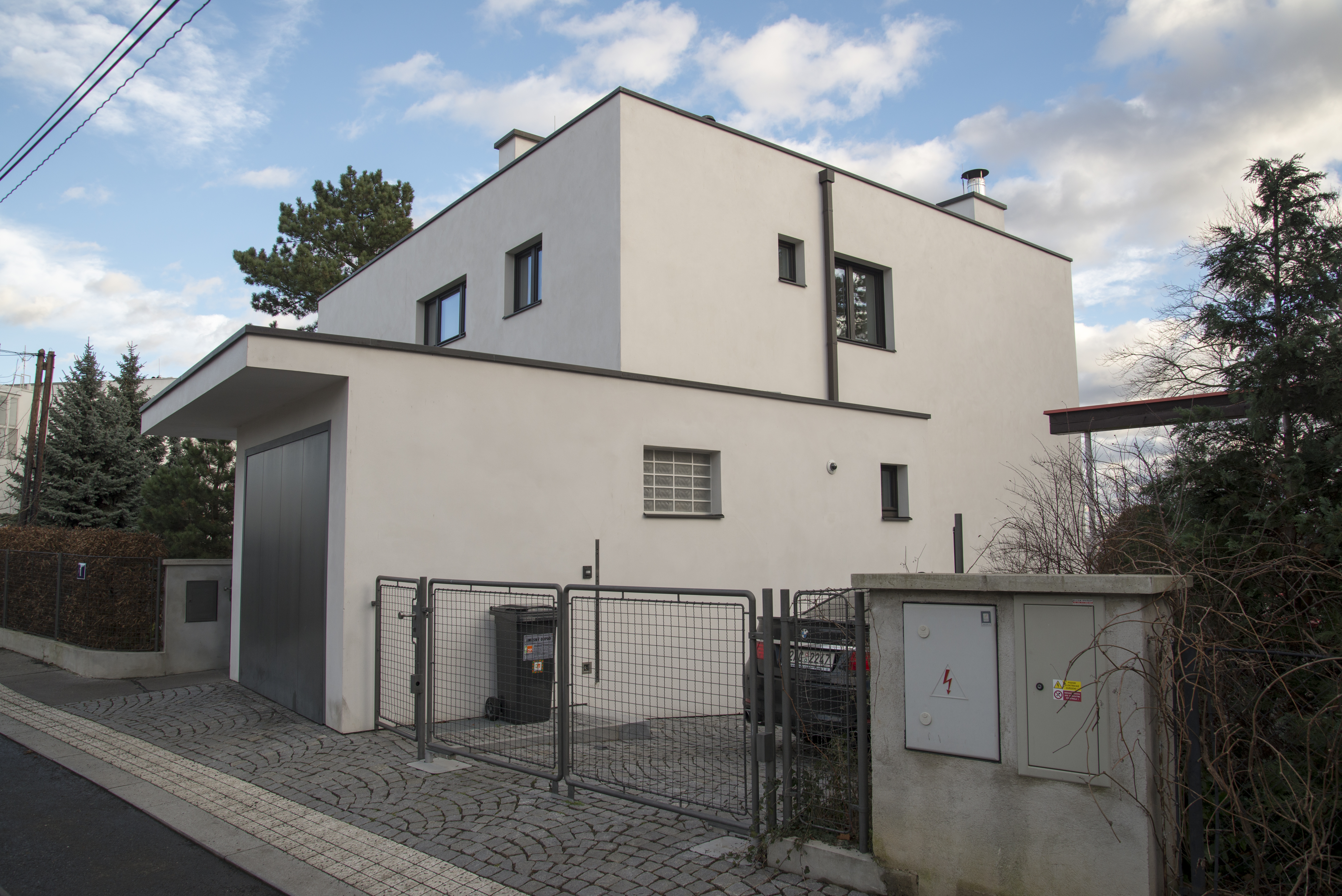 Osada Baba (Baba Functionalism colony in Prague) - House Mojžíš-Lom